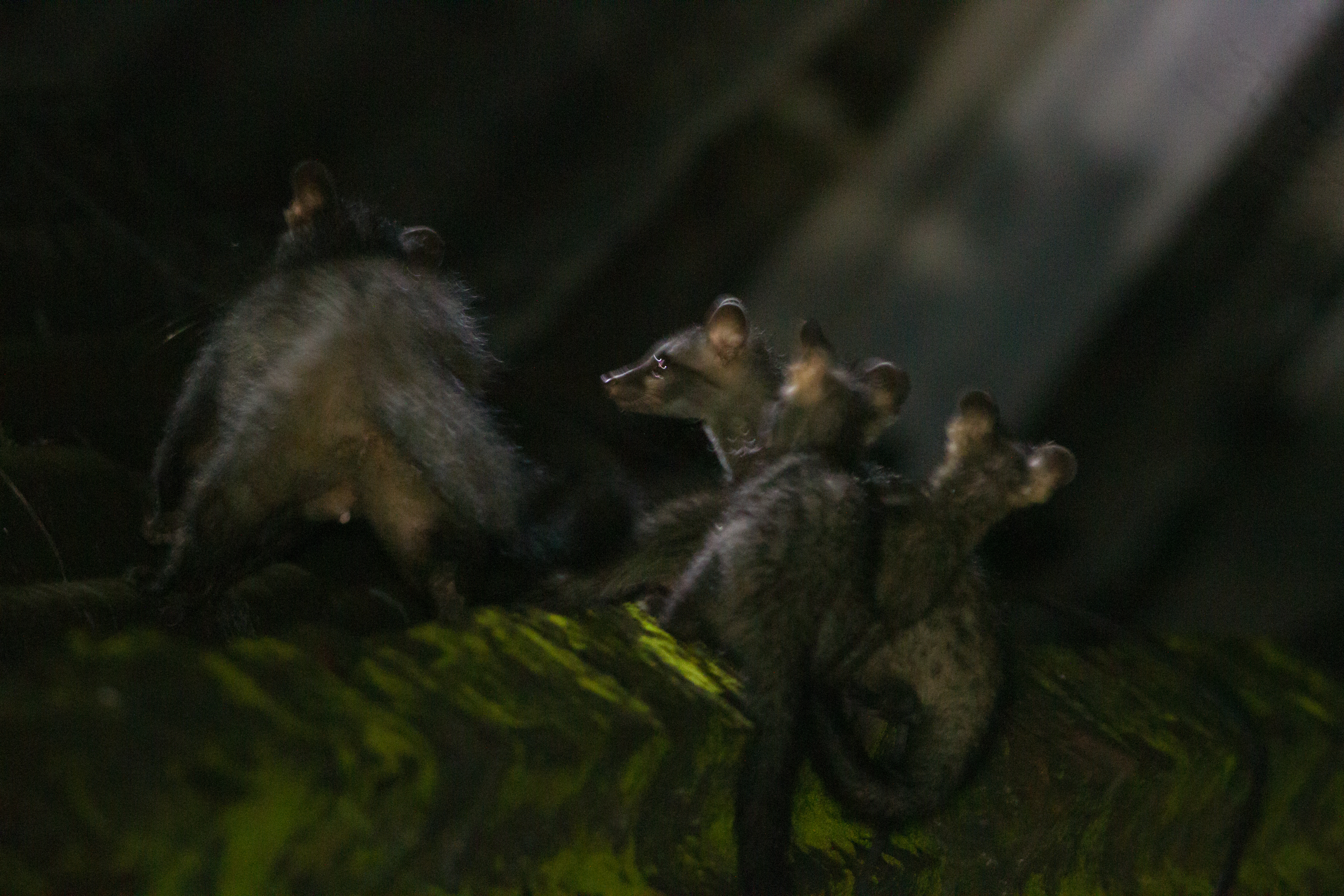 The species Asian Palm Civet with pups has been photographed from Baranagar, Kolkata, West Bengal, India during night wildlife watching.